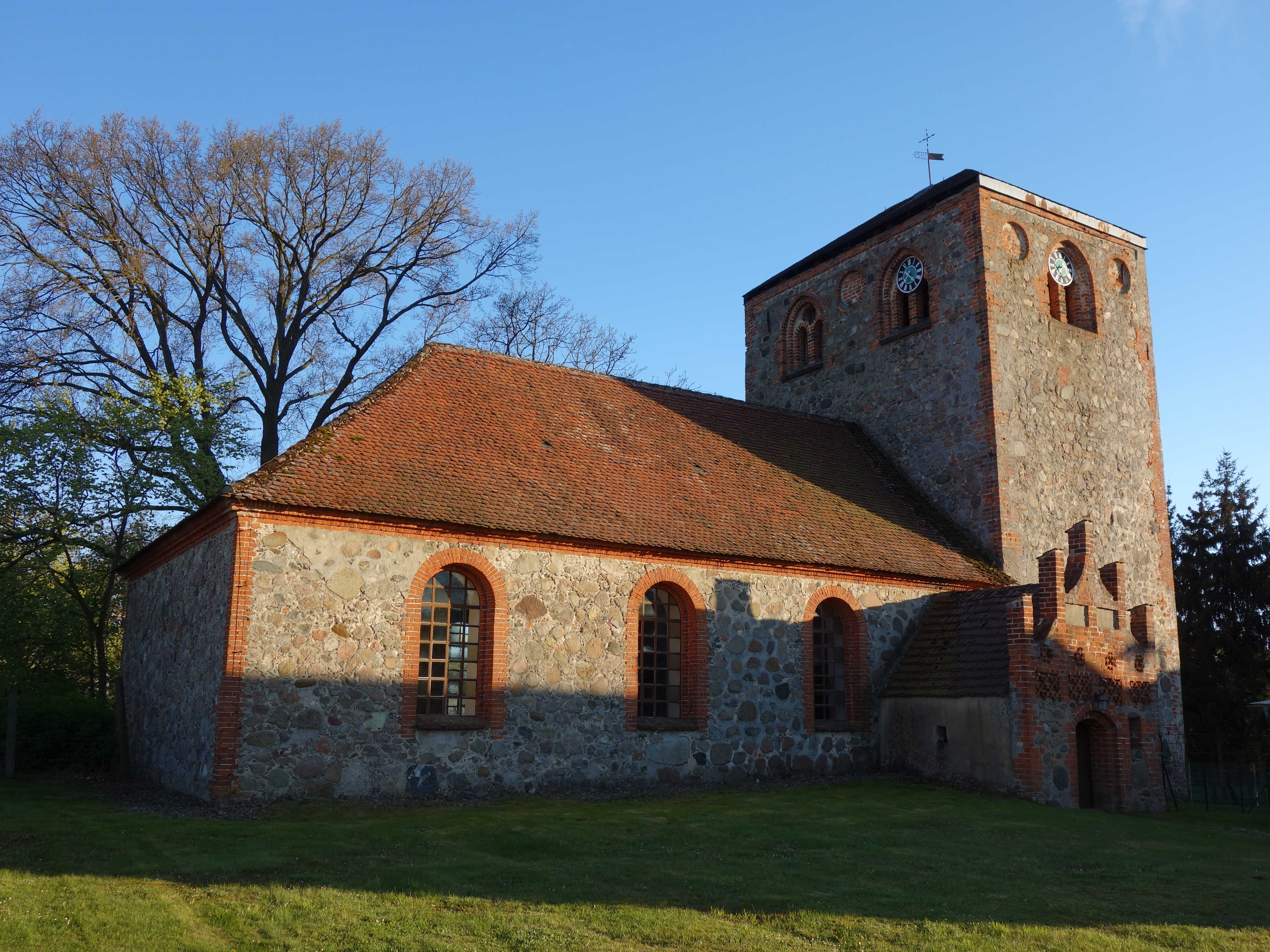 North-eastern view of church in Sadenbeck, Pritzwalk municipality, Prignitz district, Brandenburg state, Germany